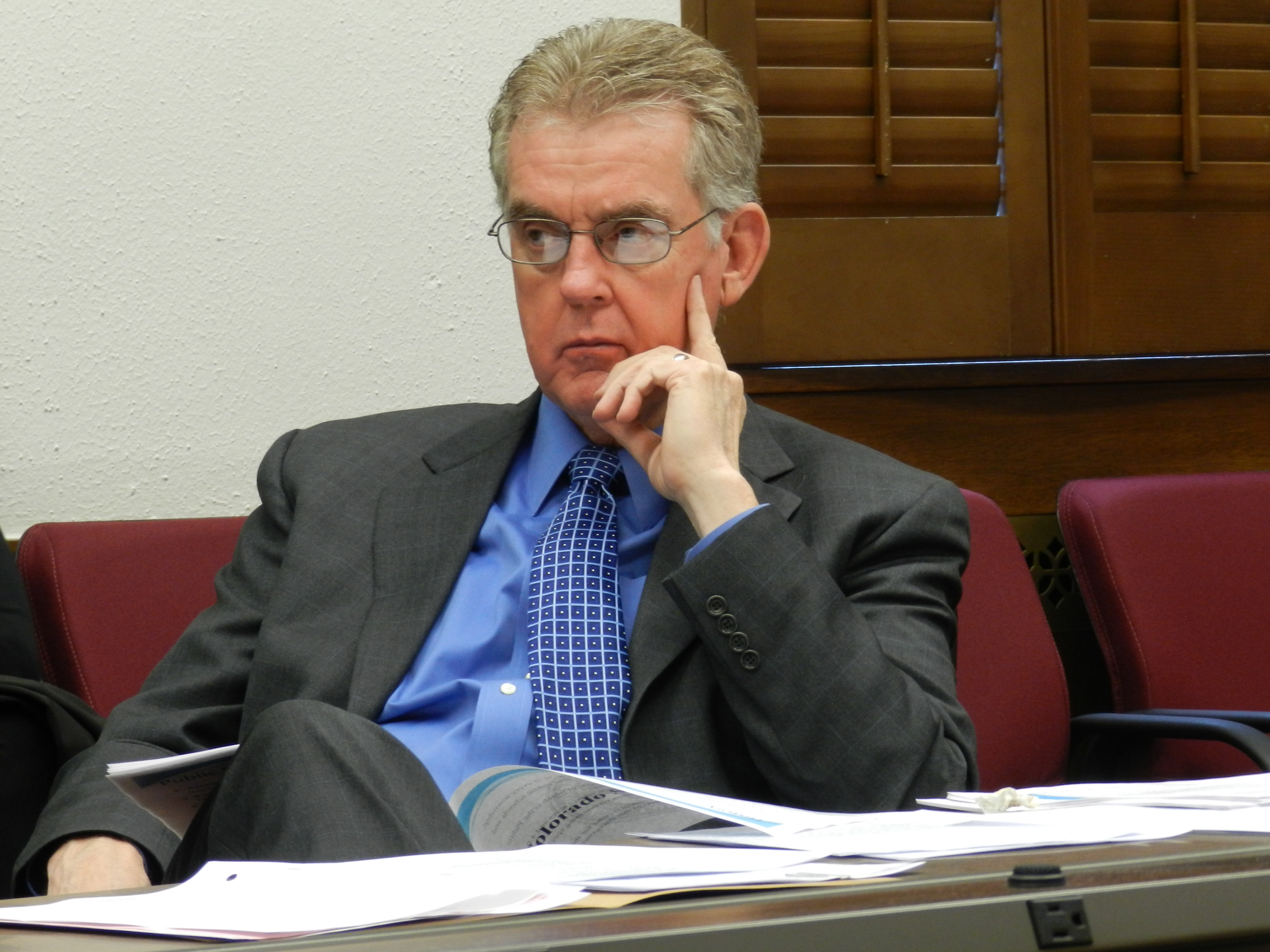 Senator King listens to a bill in committee. Learn more at